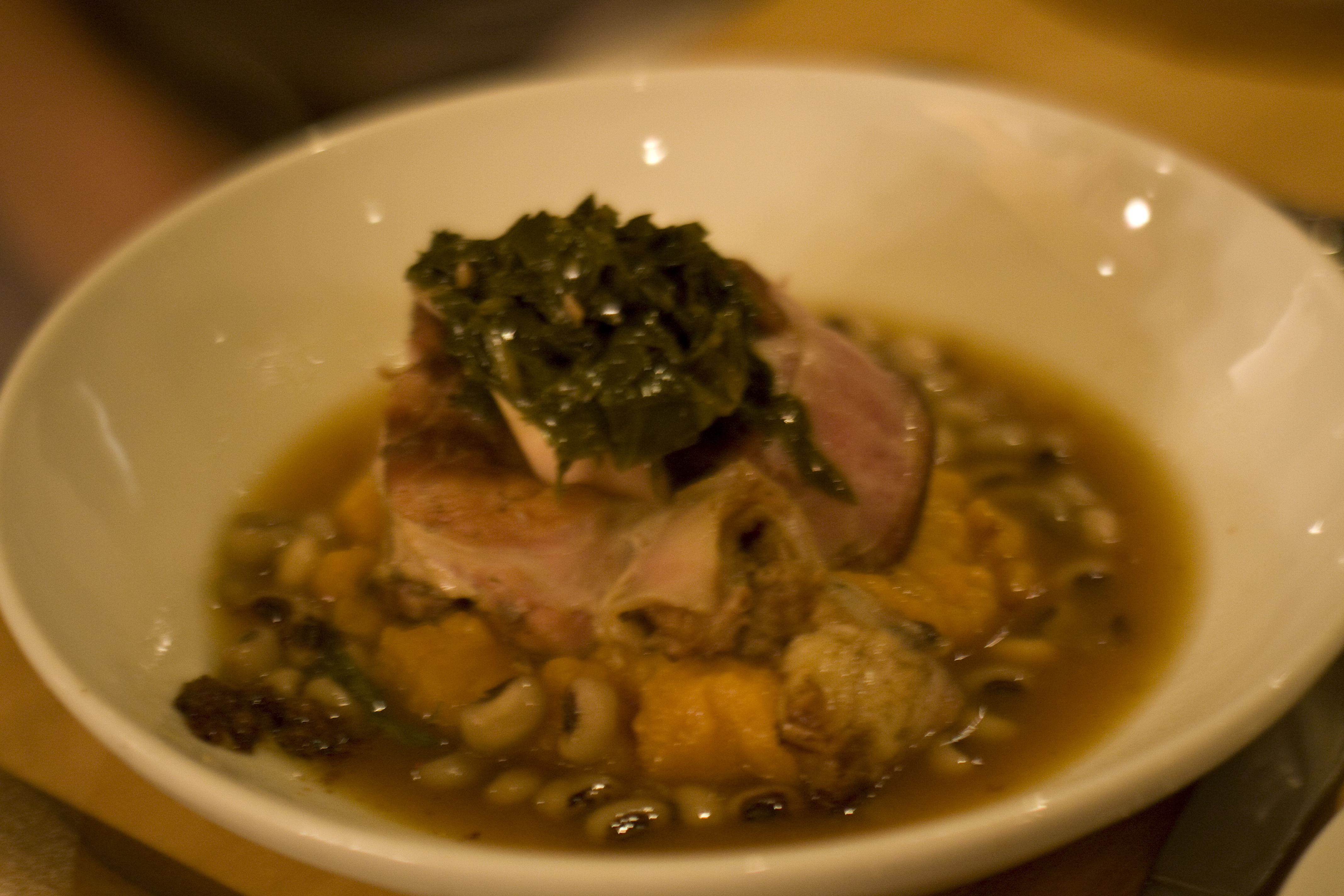 Cochon Restaurant, New Orleans. Ham hock with sweet potatoes, pickled greens, black-eyed pea ham broth. Ham hock fell apart perfectly.